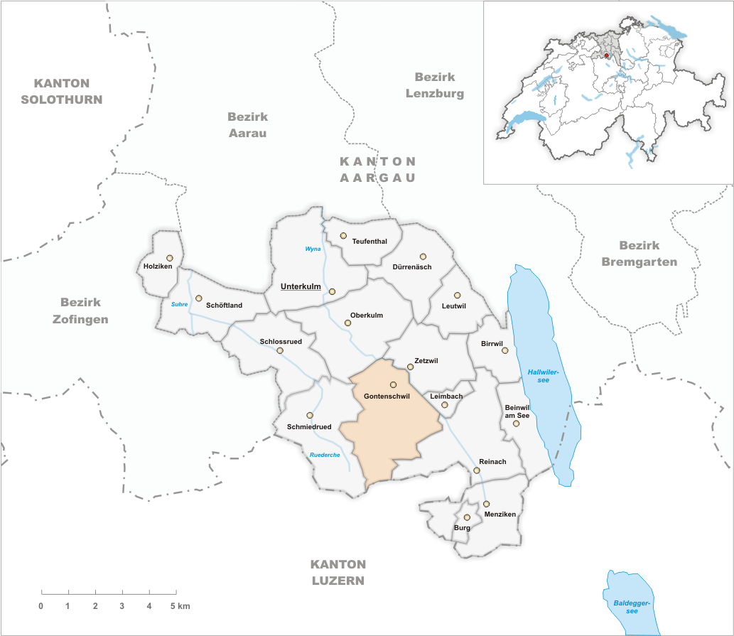 Municipality Gontenschwil